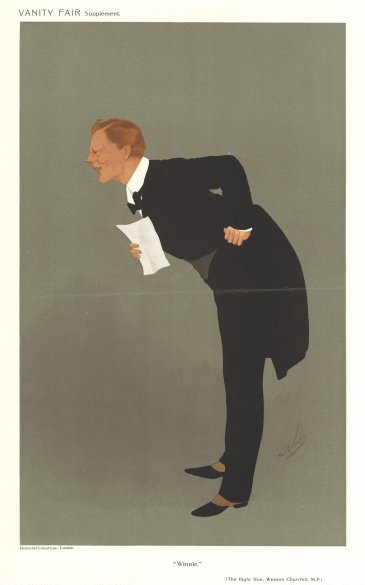 Caricature of The Rt Hon Winston Churchill. Caption read "Winnie".